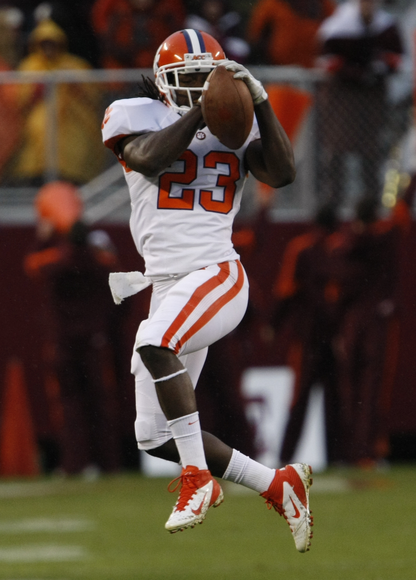 Clemson football player Andre Ellington catching a ball, 2011.